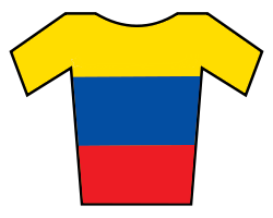 Ecuador national champ icon